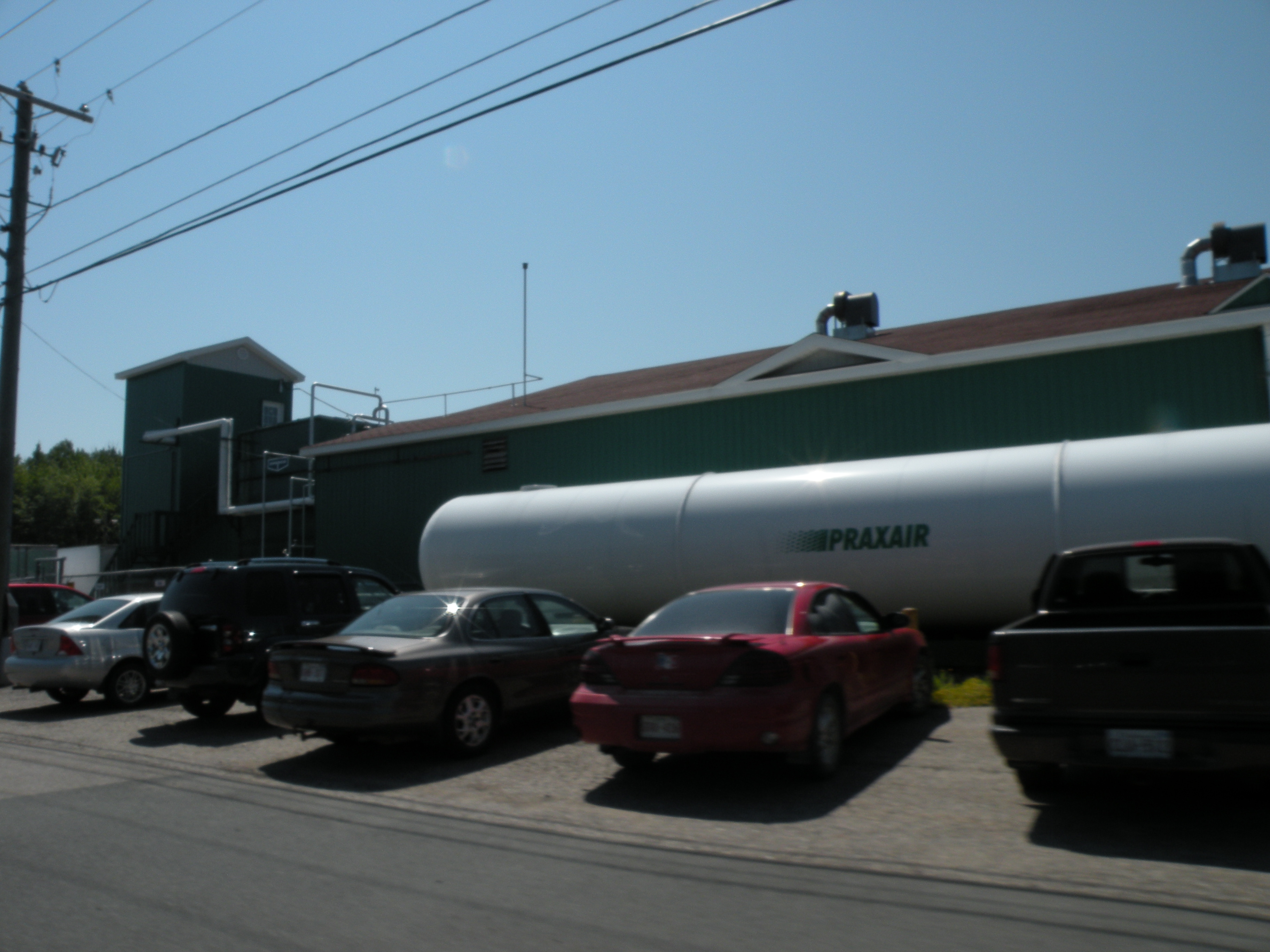 Saint-Simon, New Brunswick, Canada.